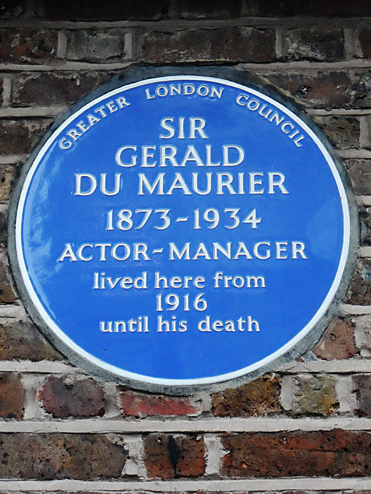 Blue plaque erected in 1967 by Greater London Council at Cannon Hall, 14 Cannon Place, Hampstead, London NW3 1EH, London Borough of Camden